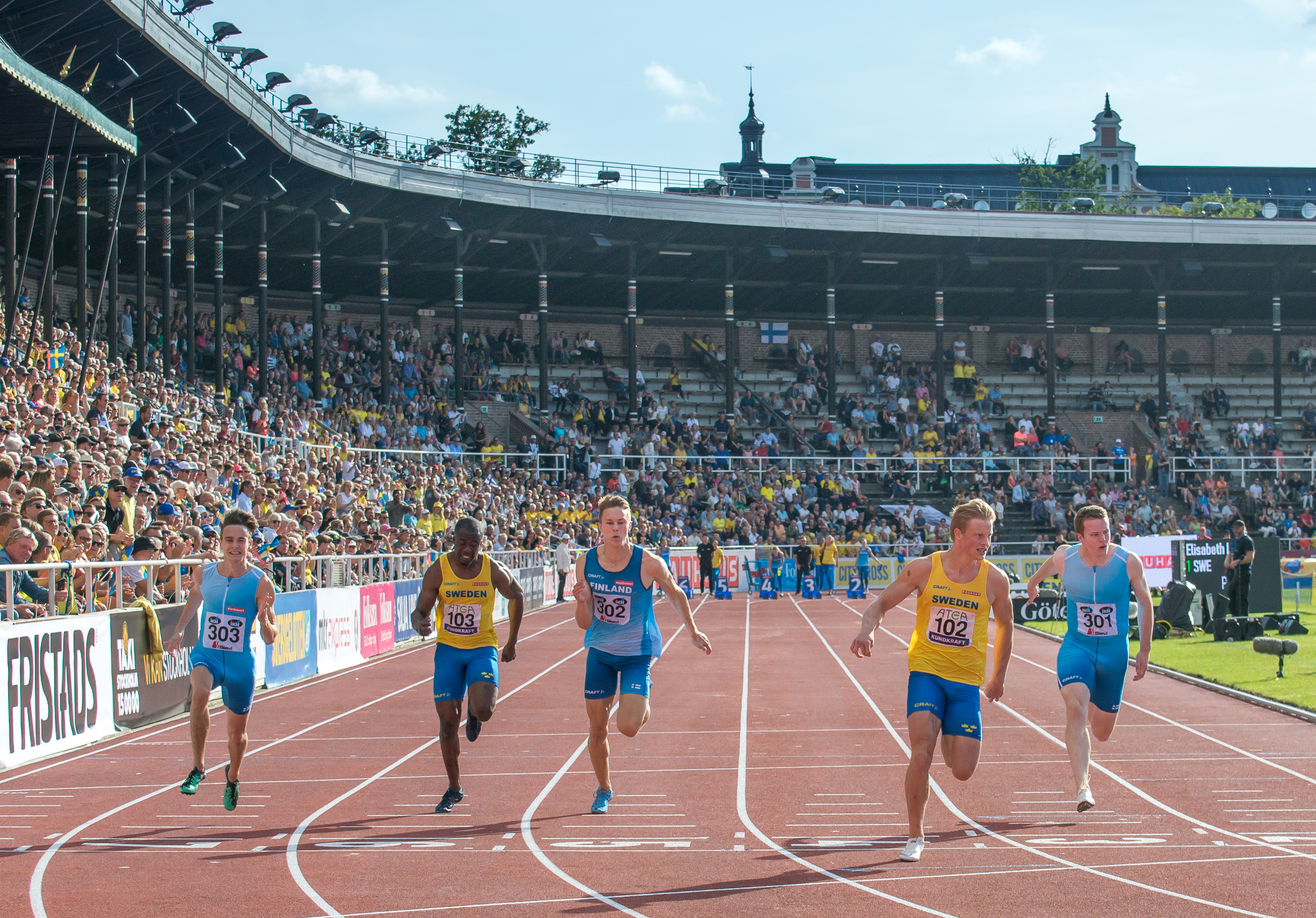 Henrik Larsson during the Finland-Sweden Athletics International at Stockholms Stadion on August 24, 2019.